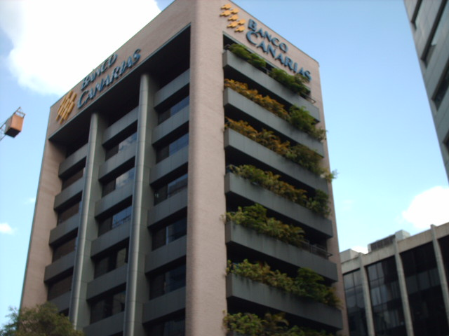 Banco Canarias building, Caracas-Venezuela.